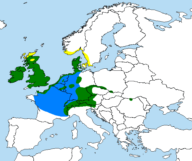 Range map of Carduelis cabaret, showing native distribution. Yellow: breeding summer visitor Green: breeding resident Blue: non-breeding winter visitor Not shown: also introduced in New Zealand Source data: Snow & Perrins Birds of the Western Palearctic, and national bird atlasses of several countries